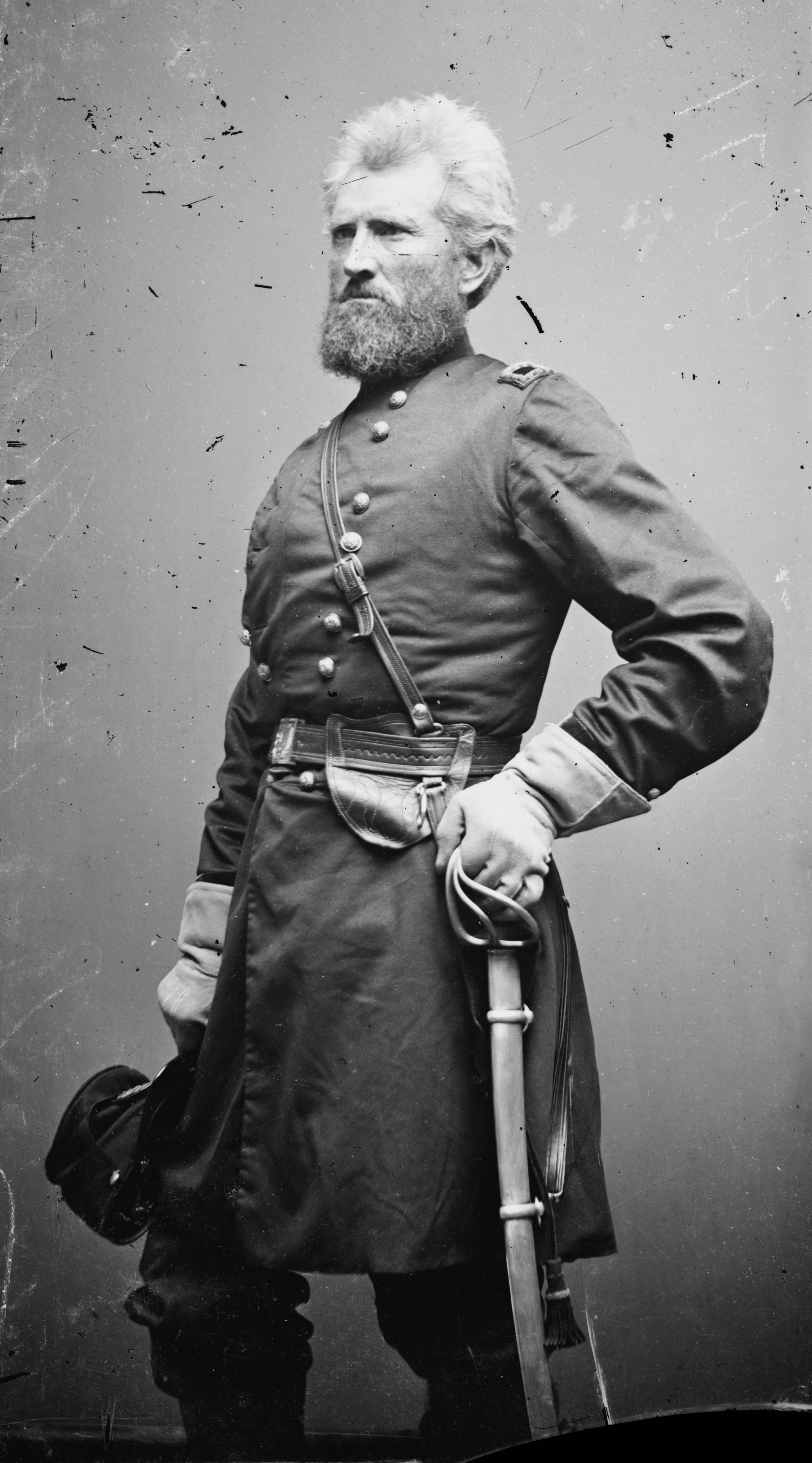 Robert Huston Milroy ( June 11 1816 – March 29 1890) was a lawyer, judge, and a Union Army general in the American Civil War, most noted for his defeat at the Second Battle of Winchester in 1863. Library of Congress Prints and Photographs Division. Brady-Handy Photograph Collection. CALL NUMBER: LC-BH82- 4071